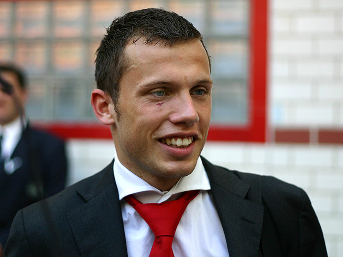 John Heitinga front.jpg